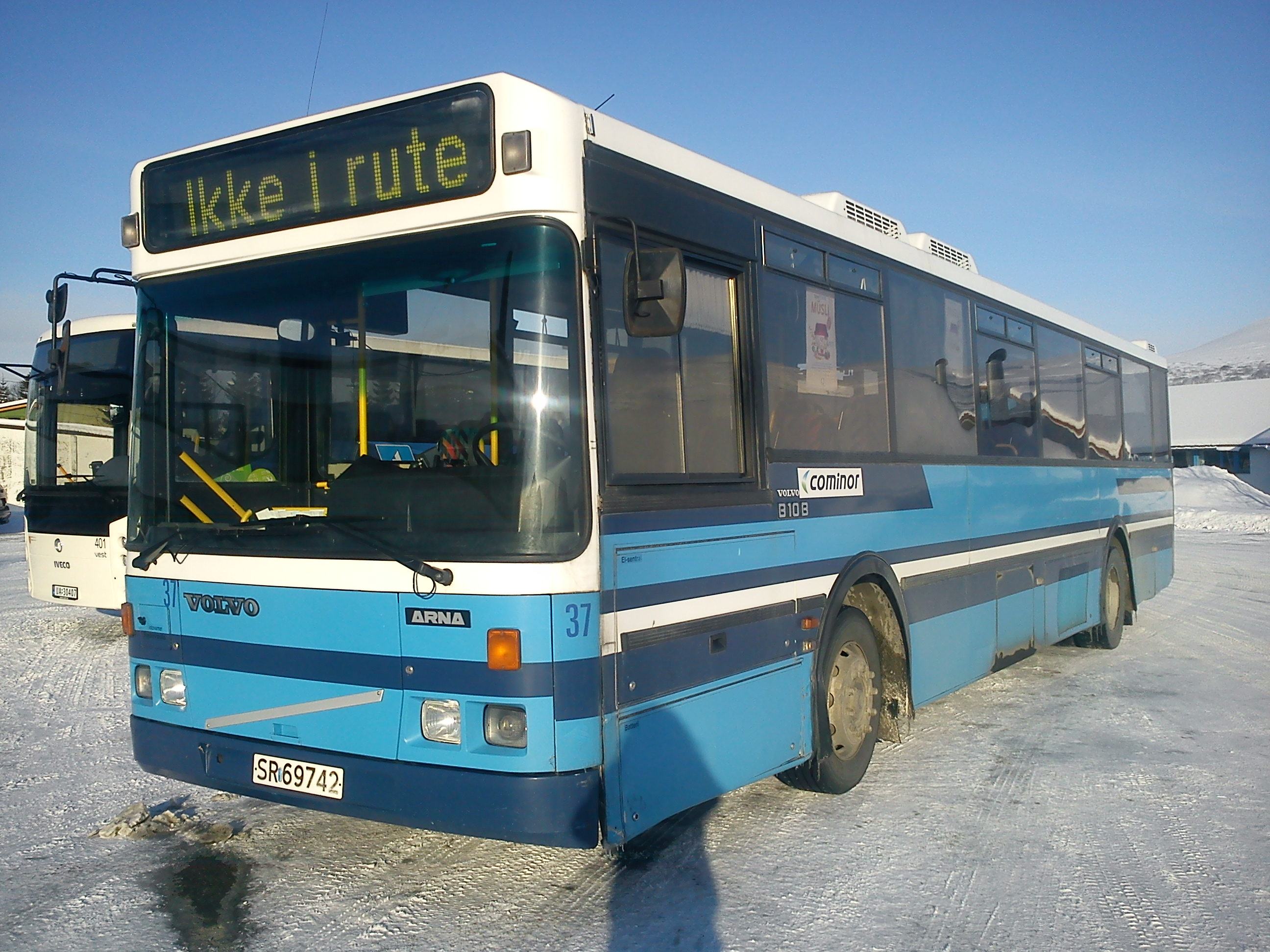 Volvo B10B from Tromsø baught by Tromsbuss now Cominor